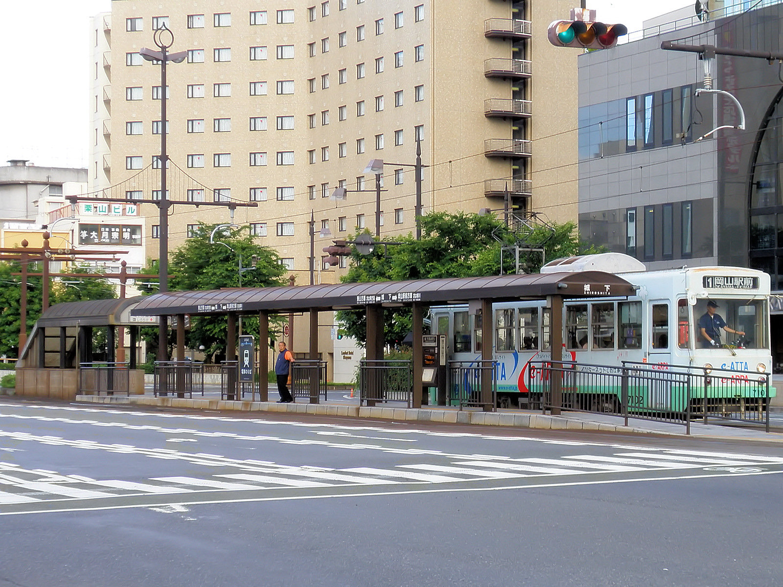 Okayama Electric Tramway Shiroshita Station.